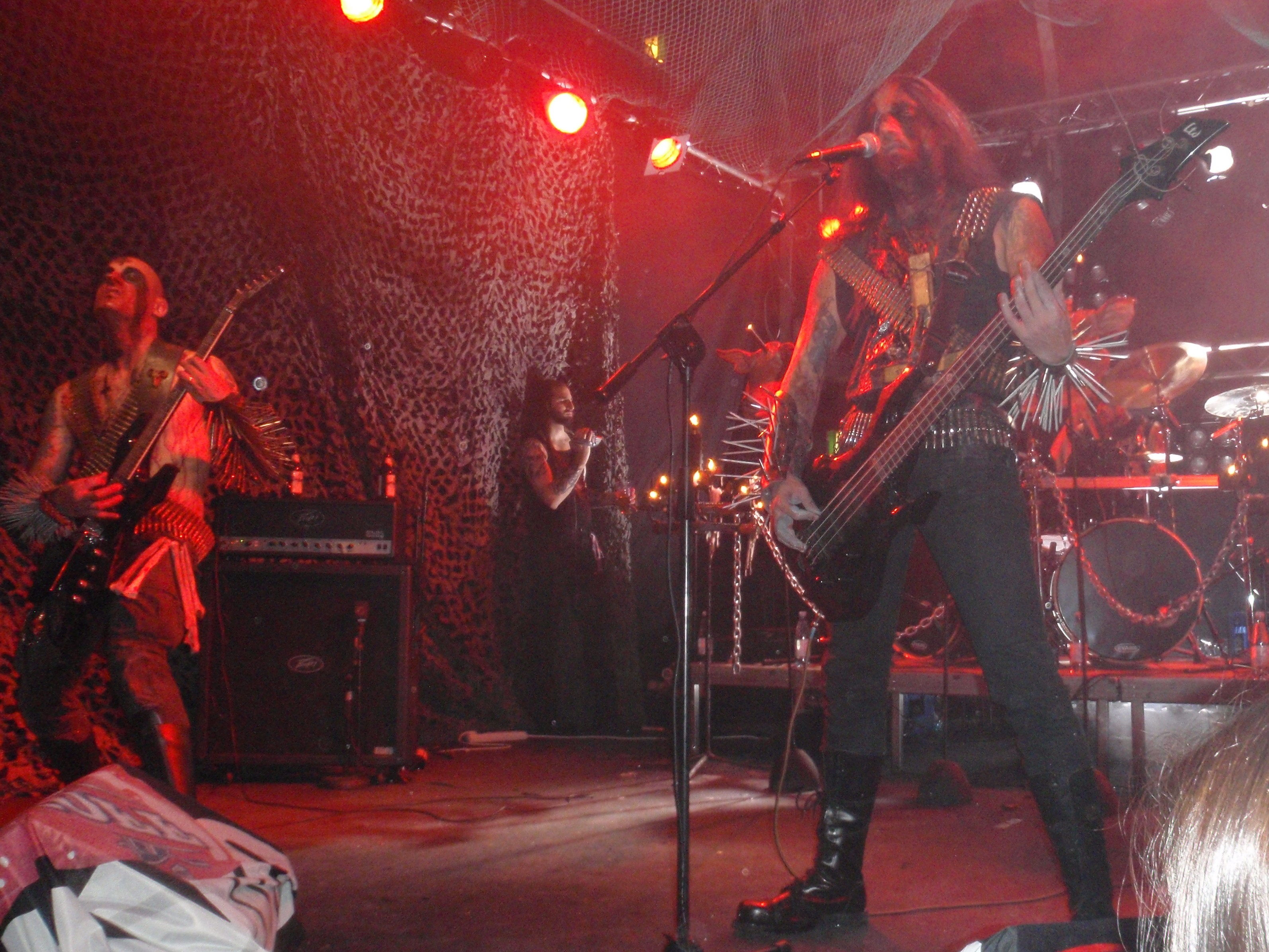 Archgoat at the Black Flames of Blasphemy concert.